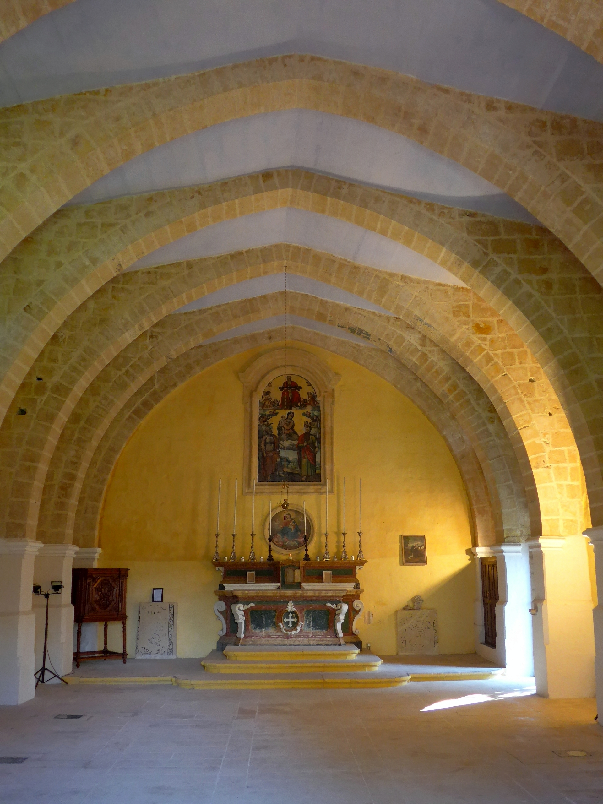 Interior detail of Chapel of St. Marija ta' Bir Miftuh This media is about Maltese cultural property with inventory number 01806.